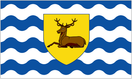 Hertfordshire flag. The county flag of Hertfordshire registered by the Flag Institute